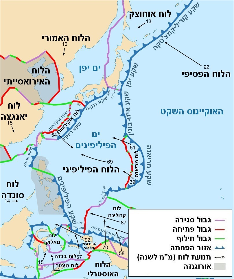 Detailed map in English showing the tectonic plates with their movement vectors near the Philippines.